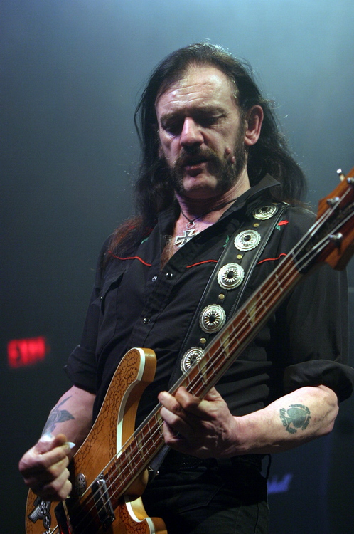 Motorhead Live at Reds, Edmonton, May, 2005